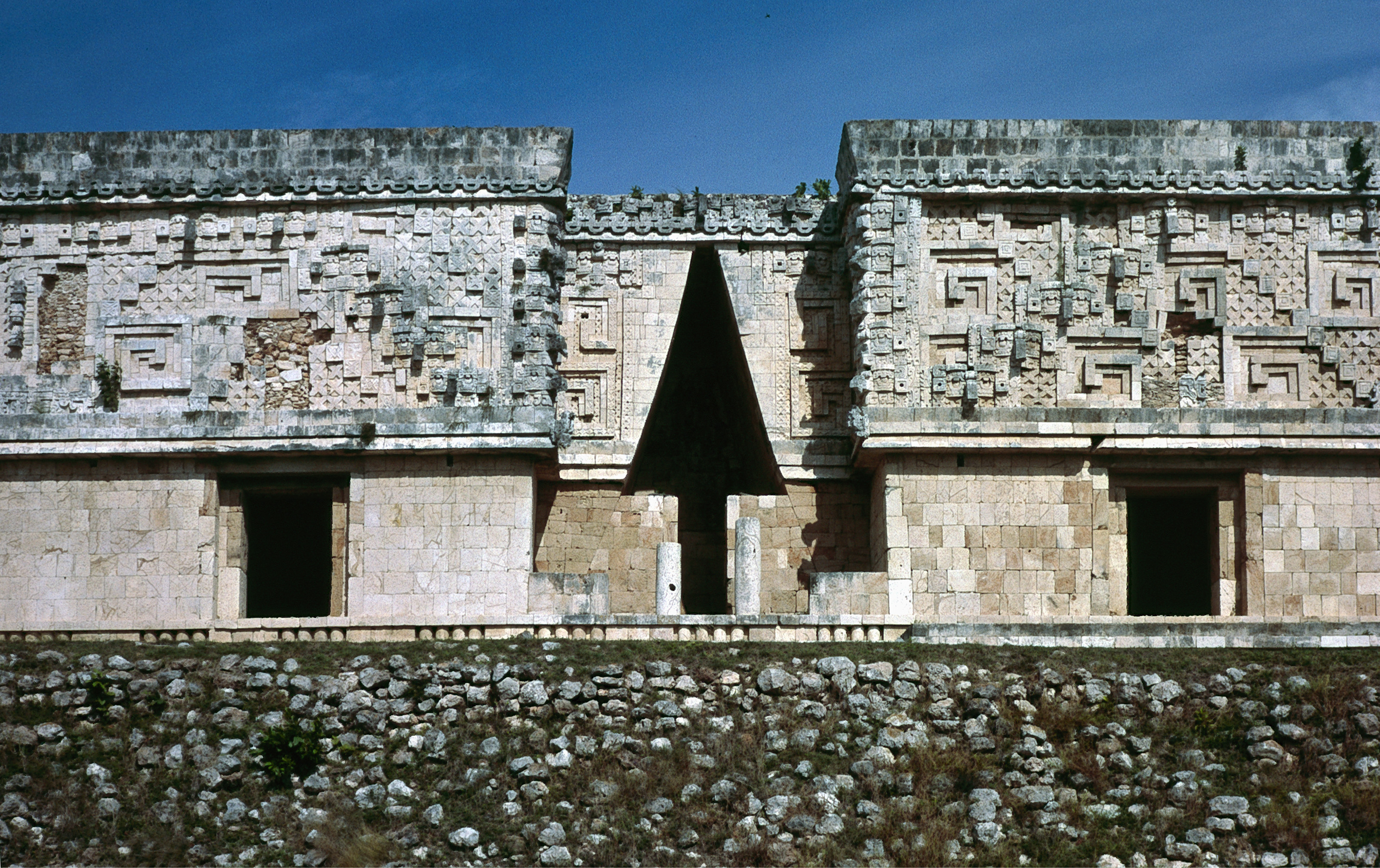 Uxmal, Yucatan, Mexico: Palacio del Gobernador, junction